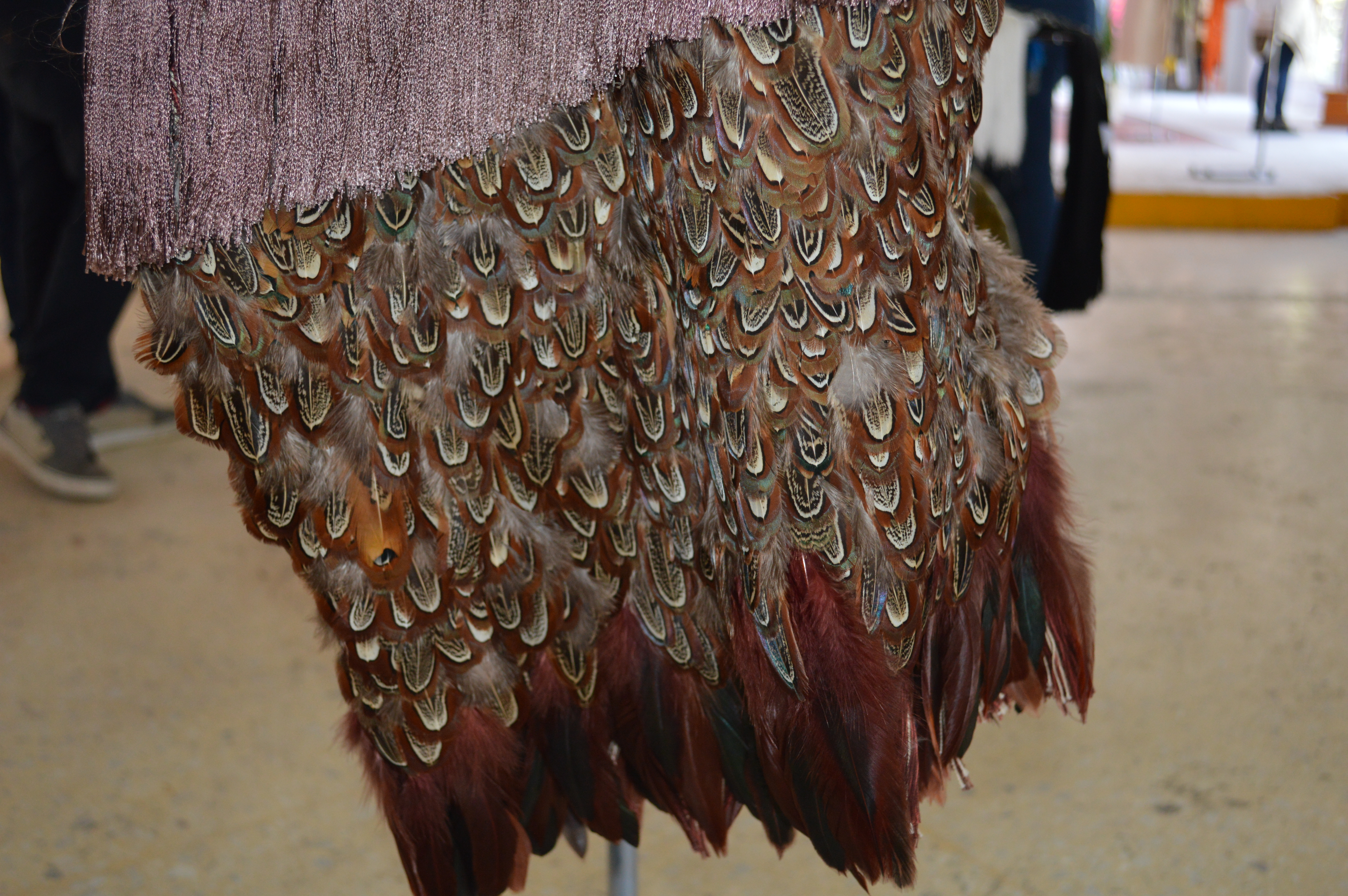 Rebozo created by Rosa Pasqual Bautista of Parachi, Aihuiran, Michoacan on display at the Feria de Rebozo in Tenancingo, Mexico State, Mexico